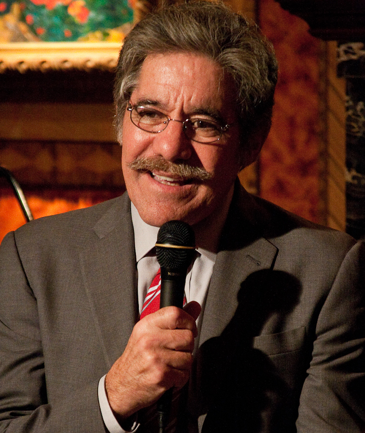 Geraldo Rivera at a Hudson Union Society event in September 2010.